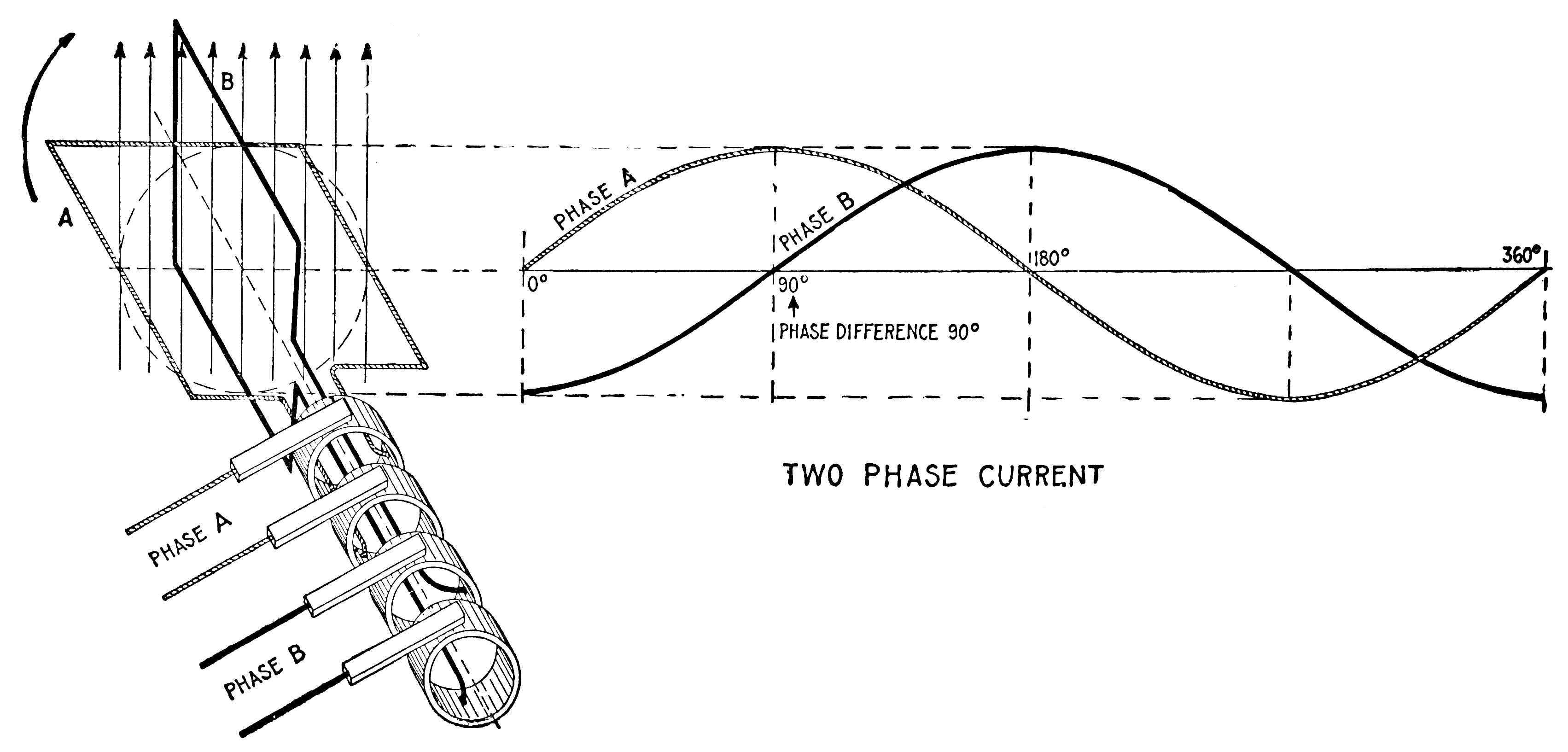 From illustration text: Elementary two-loop alternator and sine curves, illustrating two phase alternating current. If the loops be placed on the alternator armature at 90 magnetic degrees, a single phase current will be generated in each of the windings, the current in one winding being at its maximum value when the other is at zero. In this case four transmission conductors are used, two for each separate circuit, and the motors to which the current is led have a double winding corresponding to that on the alternator armature.